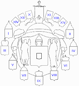 Great russian coat of arms with number for identifing each smaller coat Mexicano